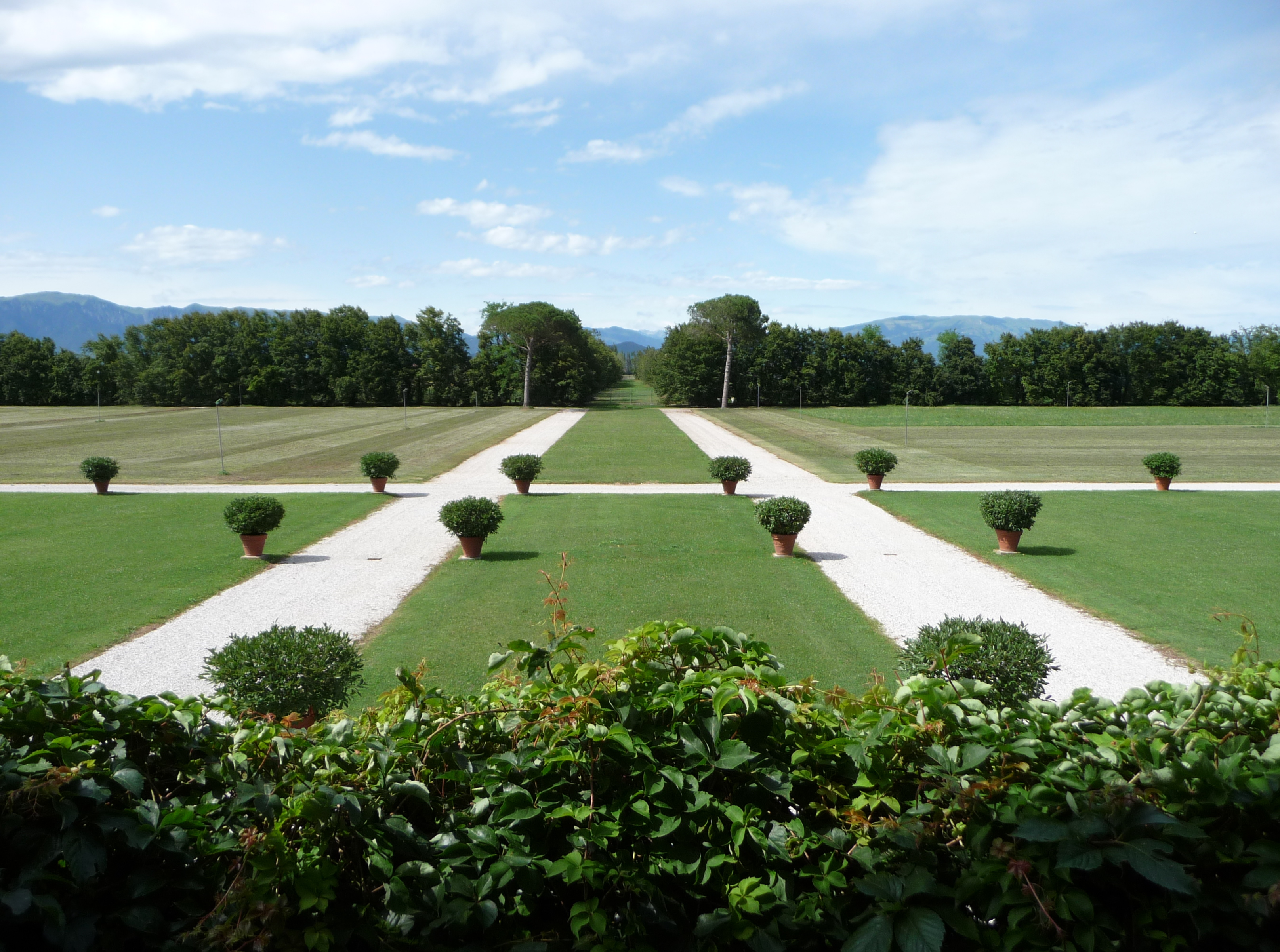 The rear garden of Villa Emo in Fanzolo di Vedelago, province of Treviso, Italy. The villa was designed by Andrea Palladio about 1558.